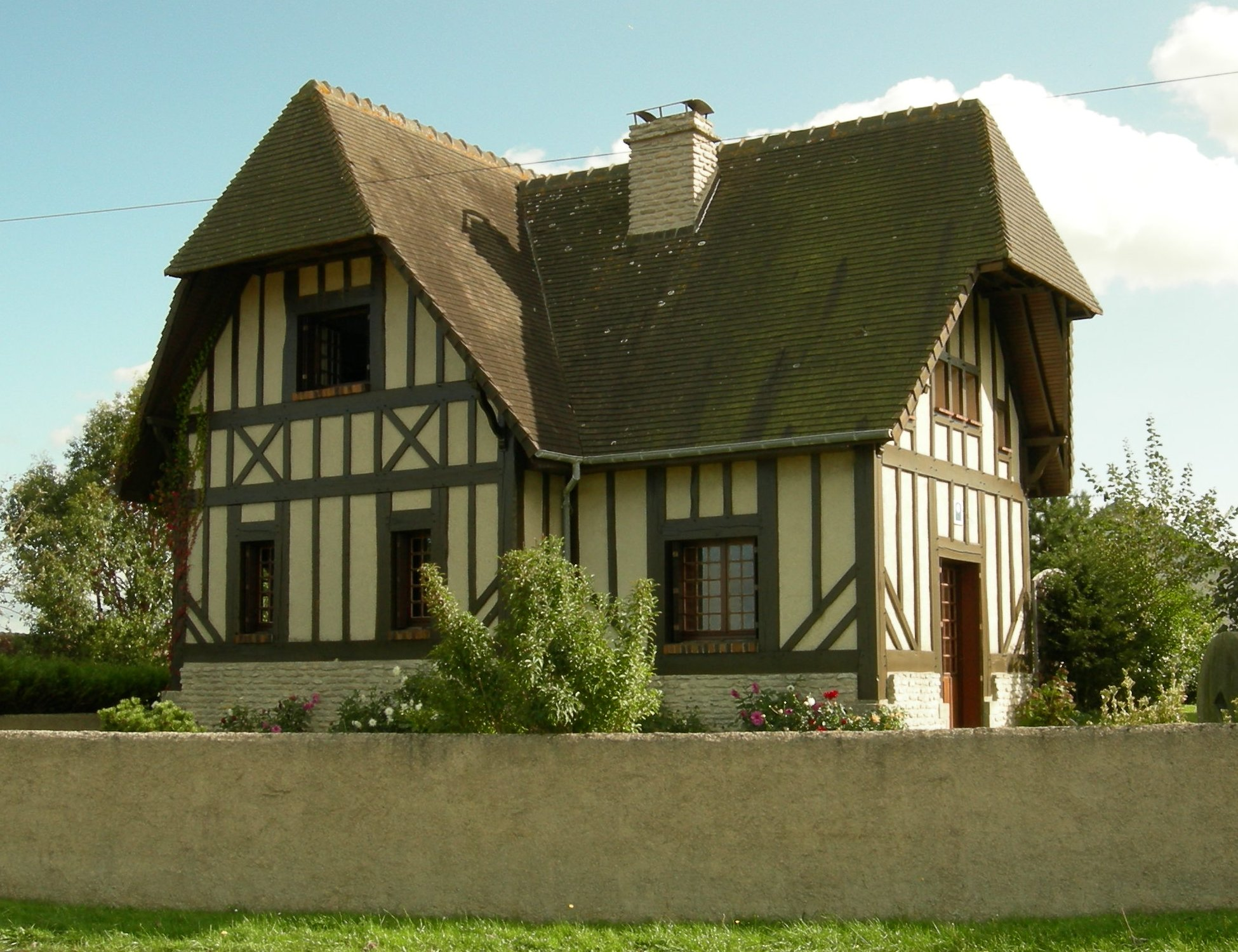 Typical house in Normandy